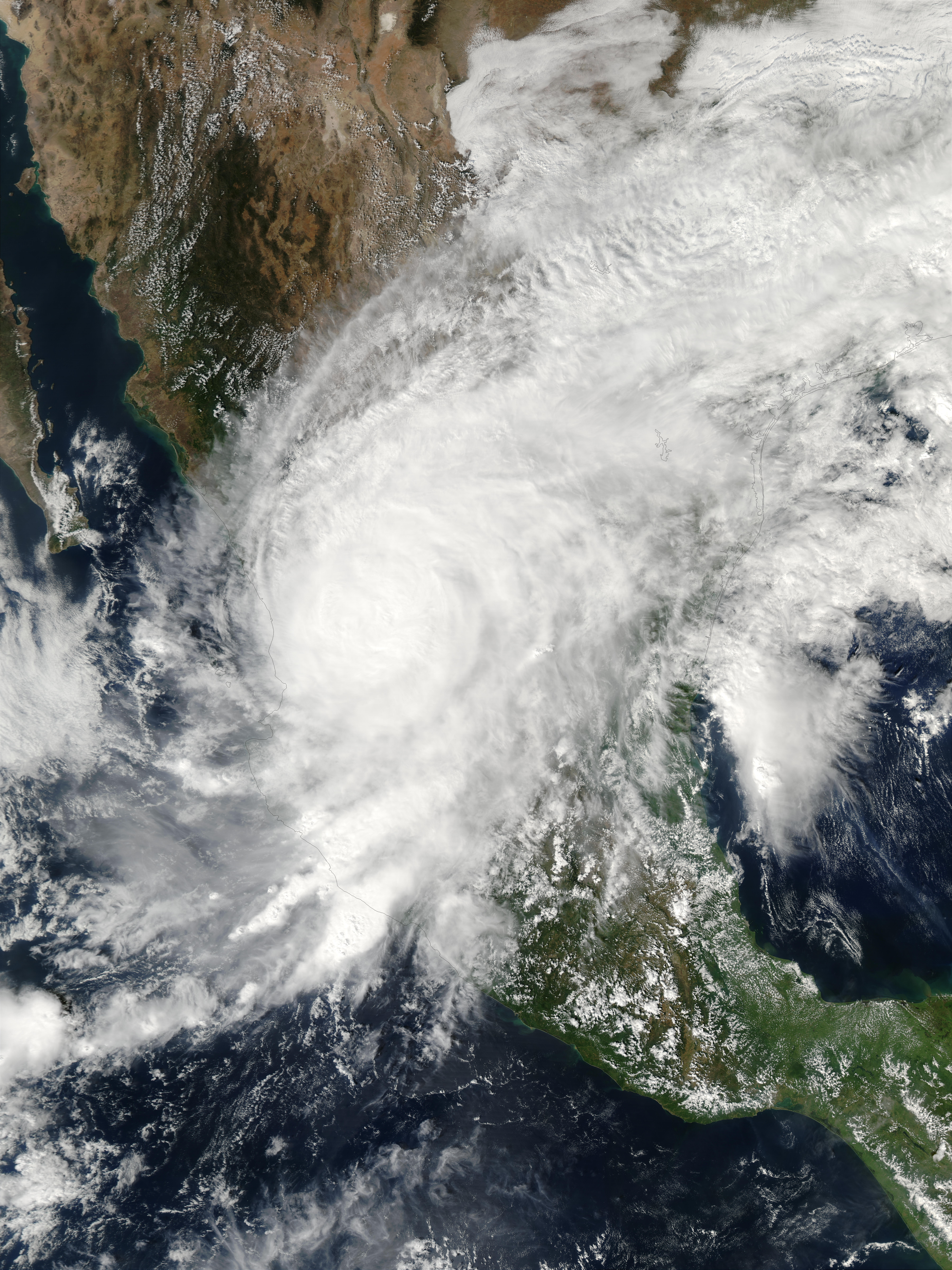 Hurricane Kenna, the sixteenth tropical disturbance of the 2002 eastern Pacific hurricane season, explosively intensified from a tropical storm to a Category 5 hurricane in less than 48 hours. On Friday, October 25, forecasters were expecting Kenna to make landfall over the western Mexican coast as a Category 4 storm. Kenna was born in the warm tropical waters of the eastern Pacific south of Mexico on October 22 to become the strongest storm to threaten the Americas in 2002. This image from the Moderate Resolution Imaging Spectroradiometer (MODIS) on the Aqua satellite shows Kenna making landfall over Mexico on October 25, 2002. Bands of storm clouds stretch well north, and eventually brought heavy rain to an already soaked Gulf Coast.